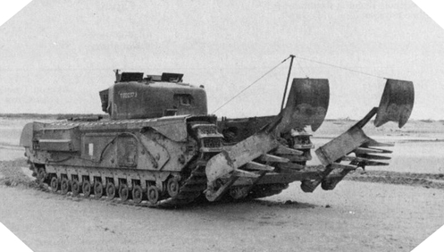 Bullshorn plough in 1945 to support the infantry through the minefields. Bullshorn Plough was mine plough to excavate the ground in front of the tank, to expose and make harmless any land mines.